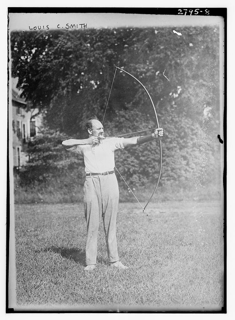 Bain News Service,, publisher. Louis C. Smith - archery [between ca. 1910 and ca. 1915] 1 negative : glass ; 5 x 7 in. or smaller. Notes: Title from unverified data provided by the Bain News Service on the negatives or caption cards. Forms part of: George Grantham Bain Collection (Library of Congress). Format: Glass negatives. Repository: Library of Congress, Prints and Photographs Division, Washington, D.C. 20540 USA, General information about the Bain Collection is available at Persistent URL: Call Number: LC-B2- 2795-8